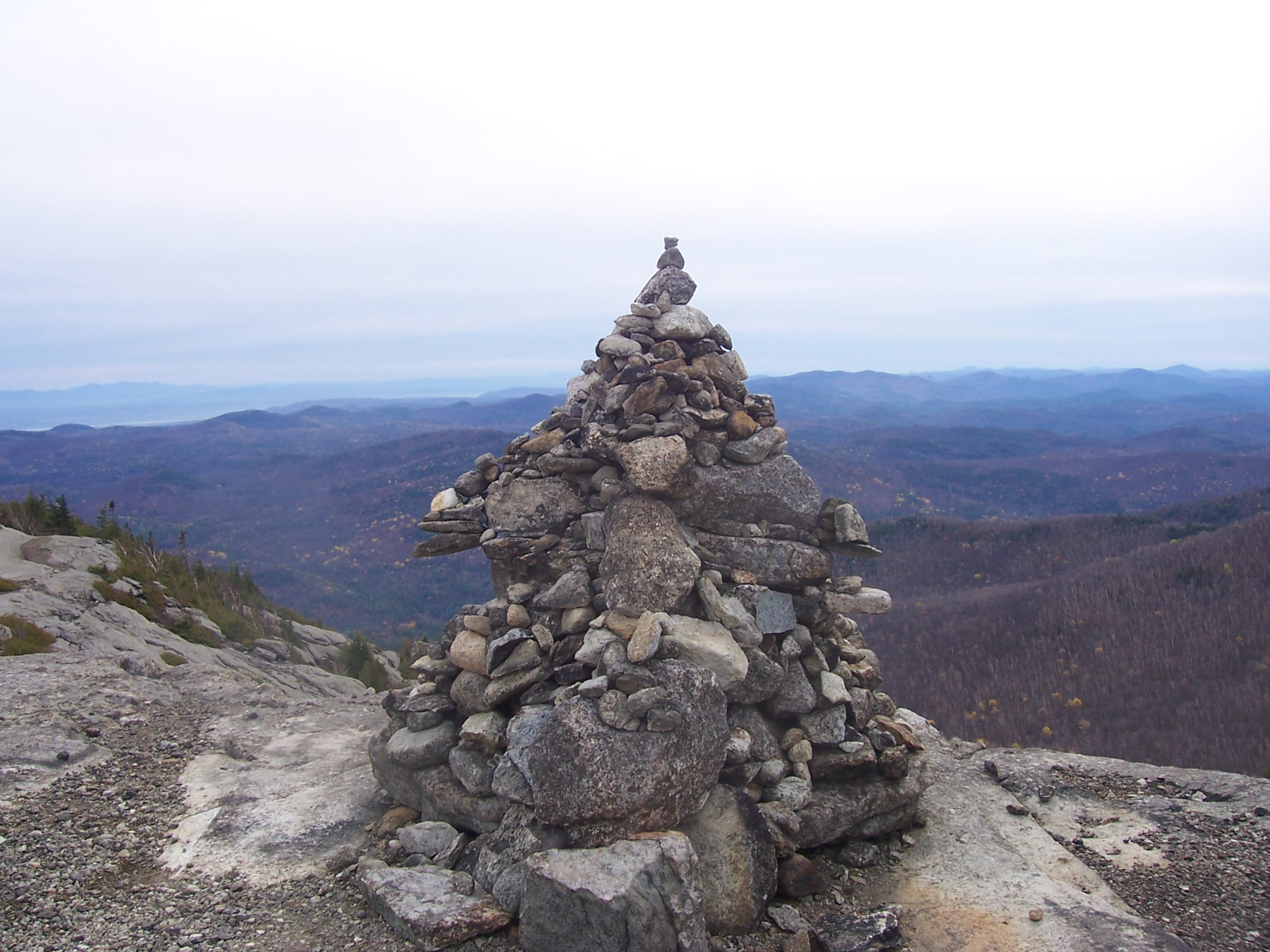 A cairn marking the peak of Bald Mountain, Adirondacks. (Original text: picture taken 12/07)